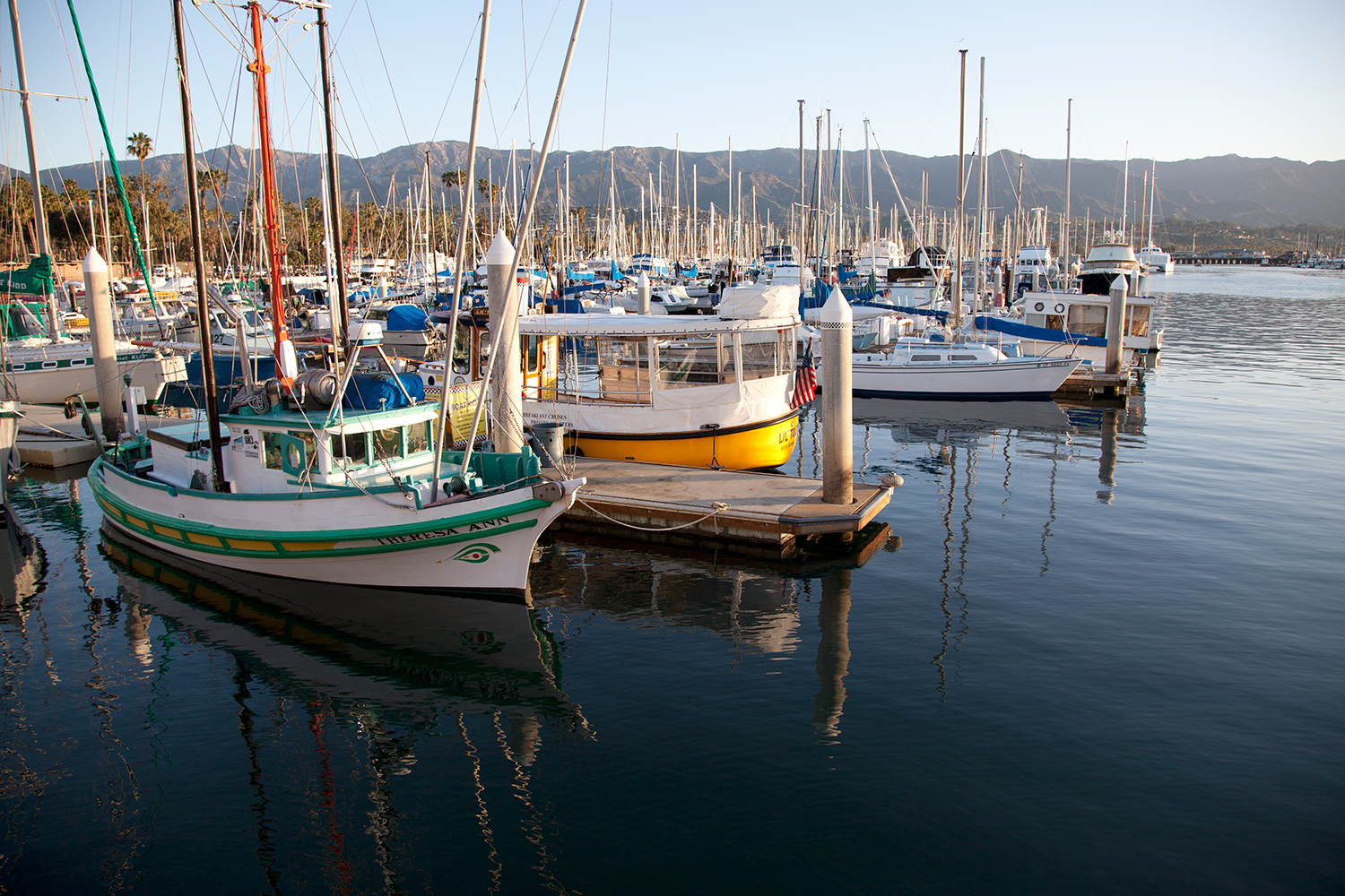 Boats in the Santa Barbara Harbor